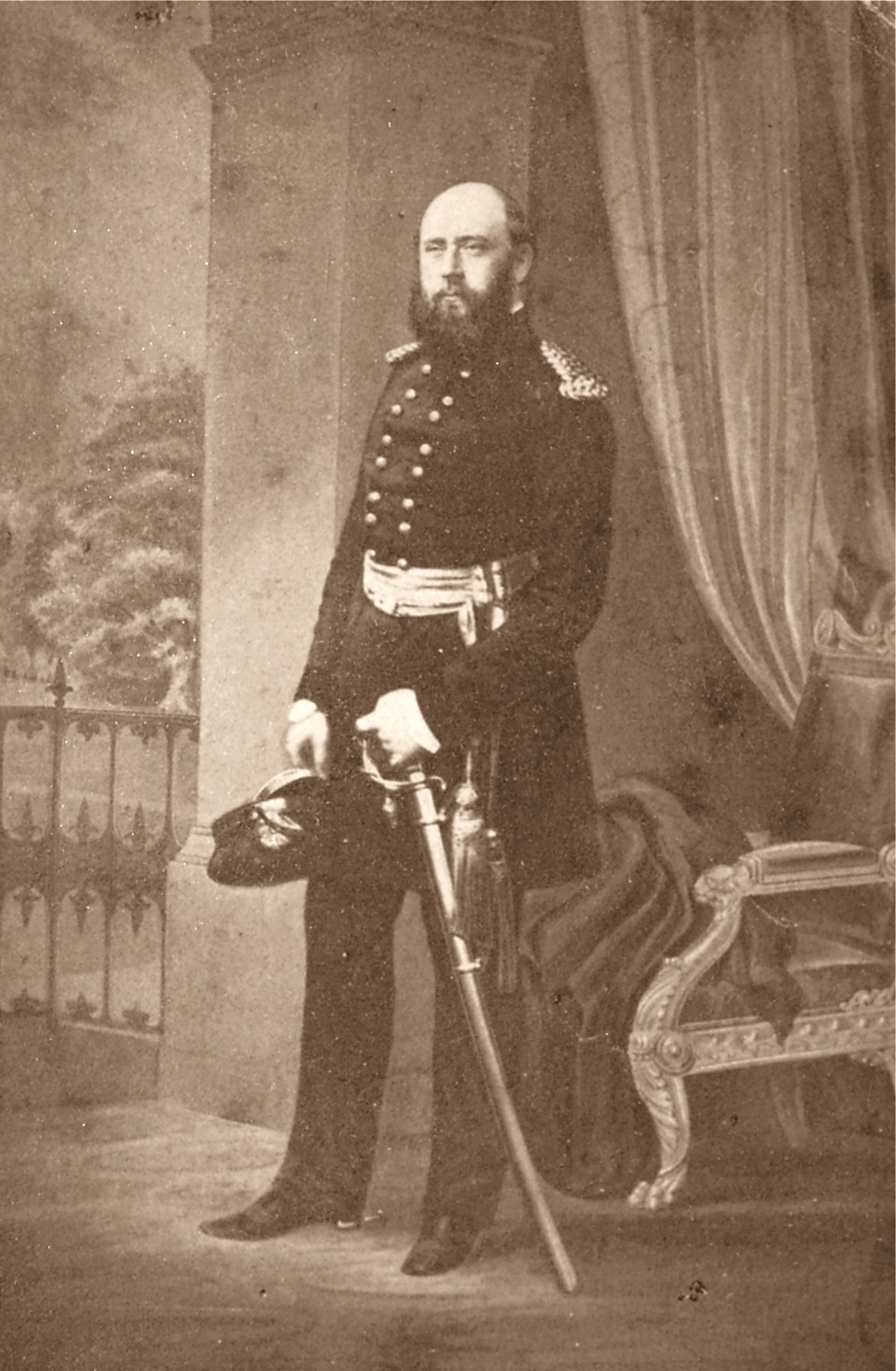 Prince George, Duke of Cambridge